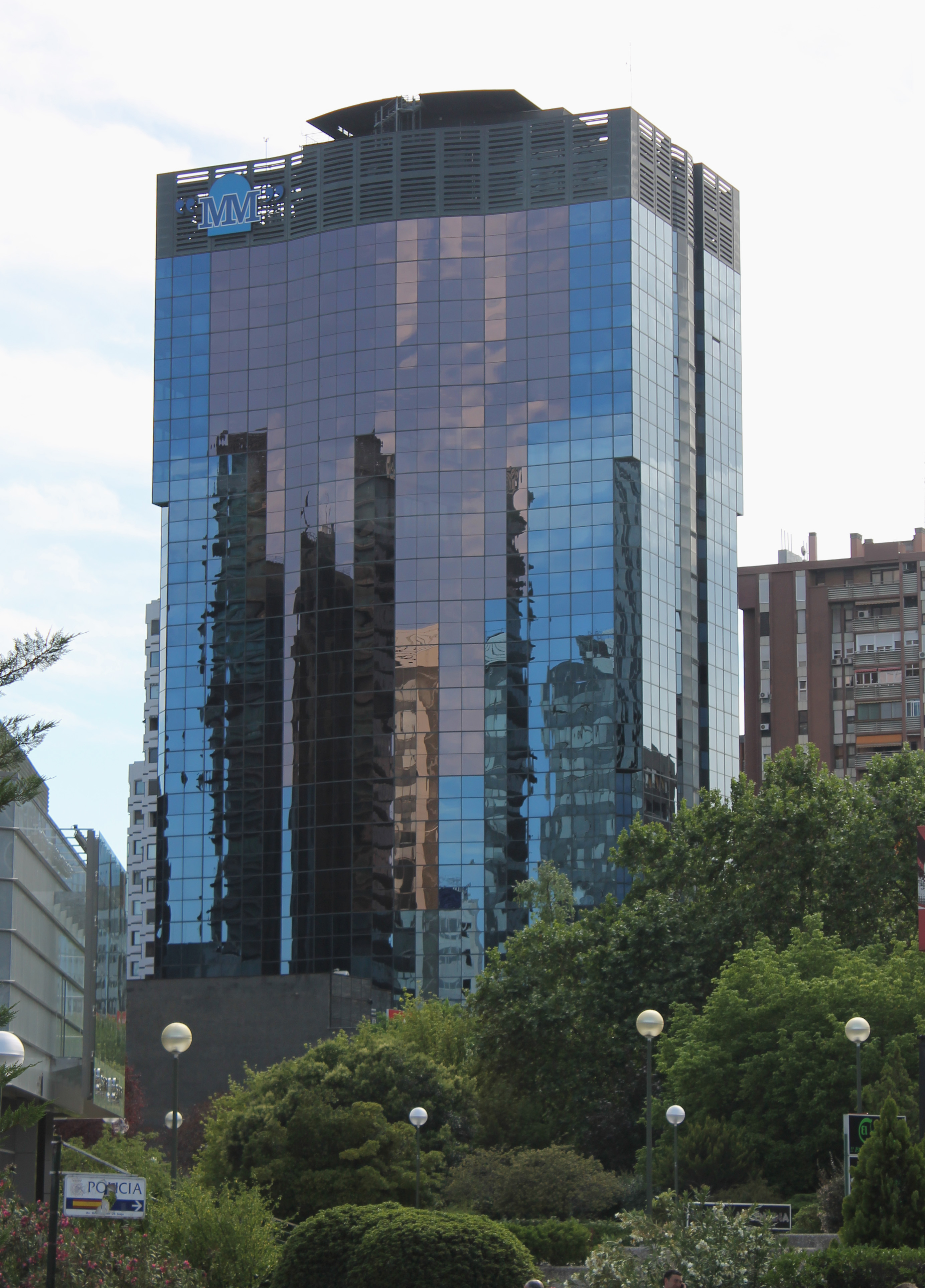 Façade of Alfredo Mahou Building in Madrid (Spain).